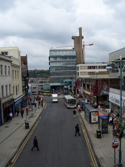 Castle Market Looking down Haymarket to the Castle Market building. Castle Market occupies the site of the Norman Sheffield Castle, which was slighted at the end of the English civil war. When this site was excavated the remains of a wooden hall was found. This was interpreted by some to be Earl Waltheof's manor in Hallam.